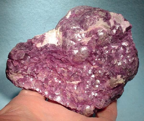 Lepidolite Locality: Minas Gerais, Southeast Region, Brazil (Locality at ) Size: 10.5 x 9.0 x 4.8 cm. A STRIKING and VERY SHOWY CABINET specimen of pearlescent, lilac, orbicular lepidolite from Minas Gerais, Brazil. The scattered bit of bladed albite is a very nice accent and contrast. This beautiful piece is dramatically displayable from both sides and many angles. Lepidolite of this size, variety and quality is SELDOM available.